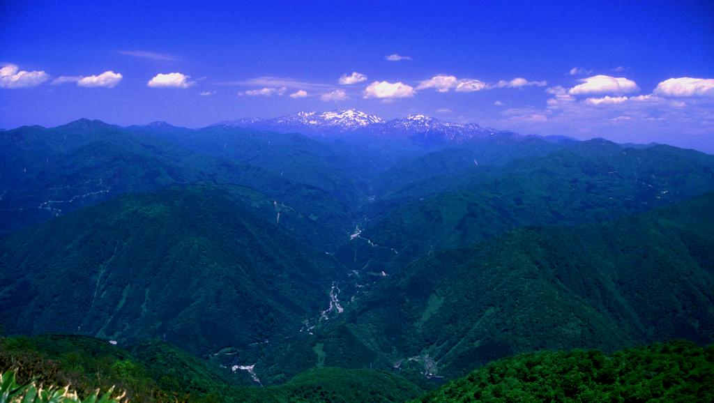 Hakusan_from_Arashimadake_2002-5-25